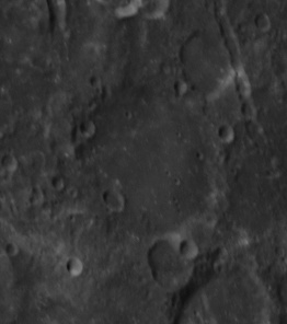 Oblique view of Popov, on the far side of the moon. North is at top.